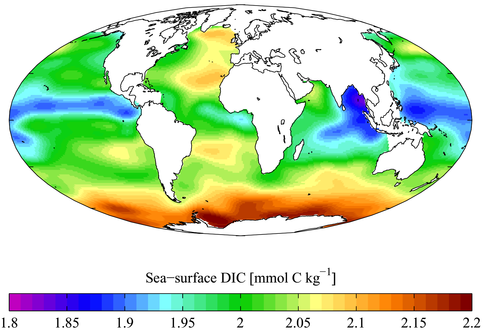 Annual mean sea surface dissolved inorganic carbon concentration for the present day (en:1990s) from the Global Ocean Data Analysis Project climatology. DIC here is in mmol kg-1 of seawater. It is plotted here using a Mollweide projection (using MATLAB and the M_Map package). Note that the GLODAP climatology is missing data in certain oceanic provinces including the Arctic Ocean, the Caribbean Sea, the Mediterranean Sea and the Malay Archipelago.